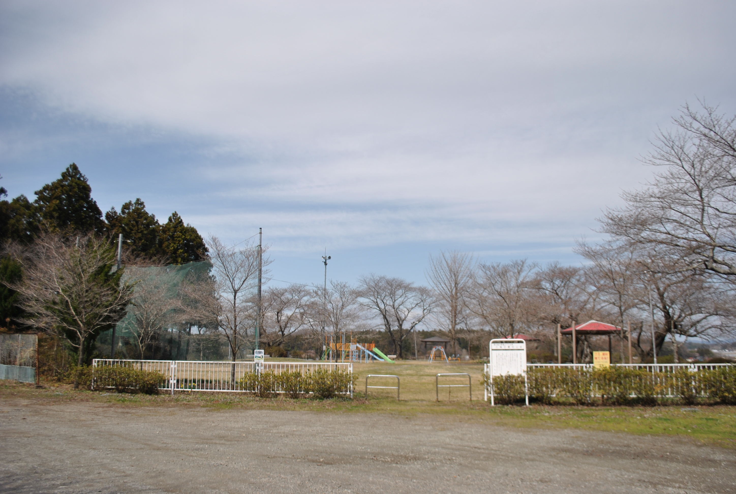 Mikami Elementary School in Yabuki Town, Fukushima Pref., Japan.